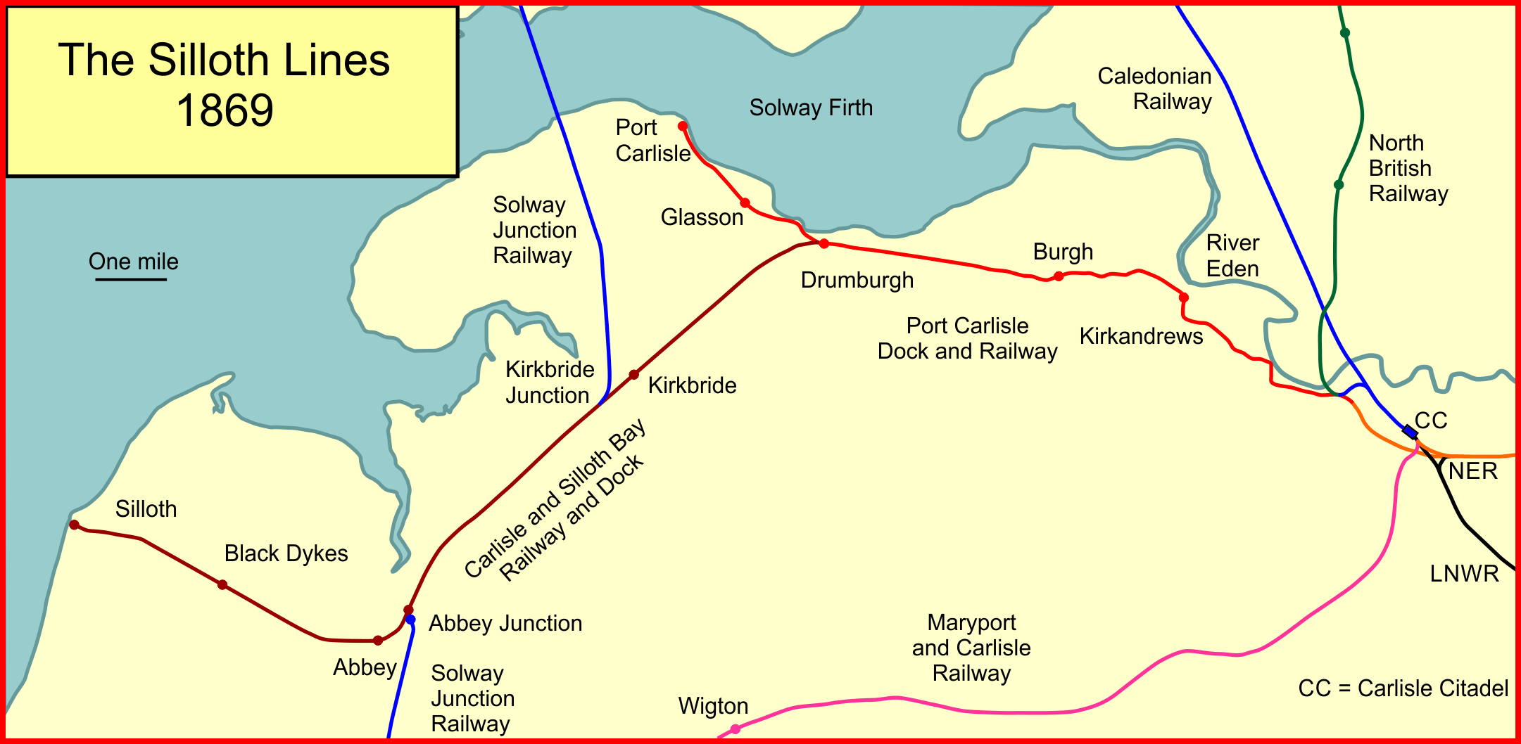 System map of the Silloth railways lines, Cumberland, England, in 1869, after the opening of the Solway Junction Railway